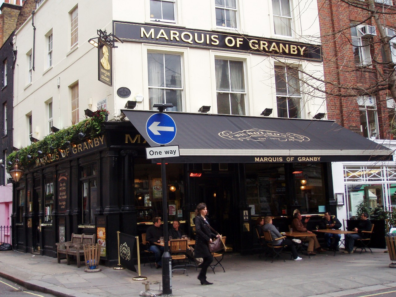 Busy pub in Fitzrovia. Address: 2 Rathbone Street (formerly listed at Percy Street). Owner: Mitchells and Butlers [Nicholson's] (website). Links: Fancyapint Beer in the Evening Qype Dead Pubs (history)